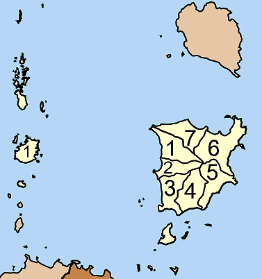 Map of Ko Samui district, Surat Thani province, with the communes (tambon) numbered. Ang Thong (อ่างทอง) Li Pa Noi (ลิปะน้อย) Taling Ngam (ตลิ่งงาม) Na Mueang (หน้าเมือง) Ma Ret (มะเร็ต) Bo Phut (บ่อผุด) Maenam (แม่น้ำ)